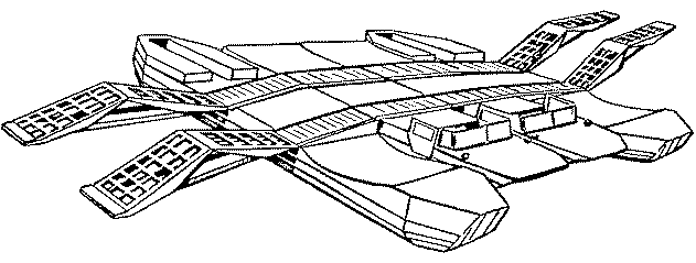 Soviet GSP-Ferry